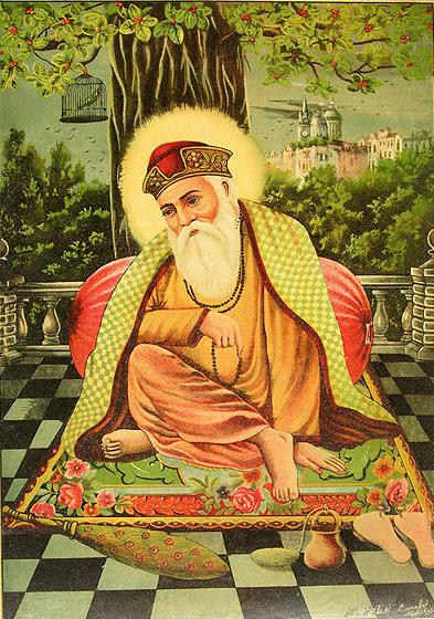 Raja Ravi Varma (born in 1848 in Kerala -died in 1906) is perhaps responsible for single-handedly giving modern form and colour to Hindu Gods and Goddesses. He painted them all in vivid colours, with an European tinge in his brush. The popularity of his paintings gave the imagery such authenticity that later versions of Gods were referred to the "original" and either accepted or rejected depending on the level of similarities. An expensive commission artist even in those days, Raja Ravi Verma (winner at ther Vienna Exhibition) is also credited with the democratisation of art by printing oleographs of his Mythological paintings in his own litho-press, the Raja Ravi Verma Press in Lonavala (near Bombay). The press unfortunately is no more after a major fire in the 1970s. Today, Oleographs from his press are considered to be a collector's item with Osian's in Bombay having one of the largest known collection of Raja Ravi Verma oleographs.